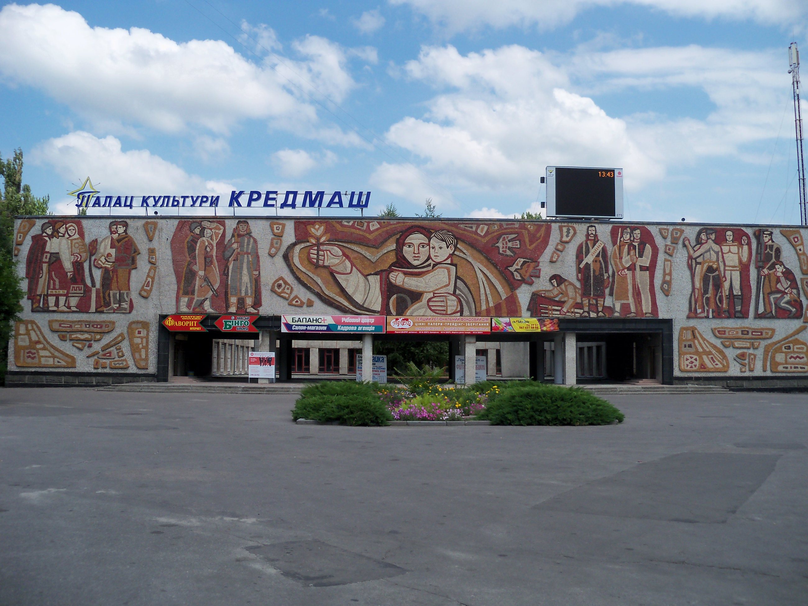 Palace of Culture «Kredmash» in Kremenchuk